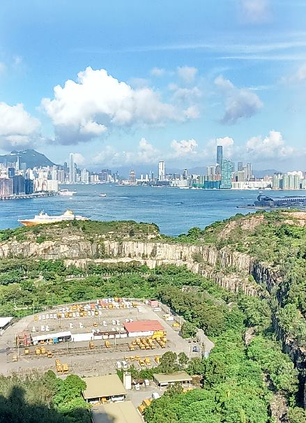 Ex-Cha Kwo Ling Kaolin Mine